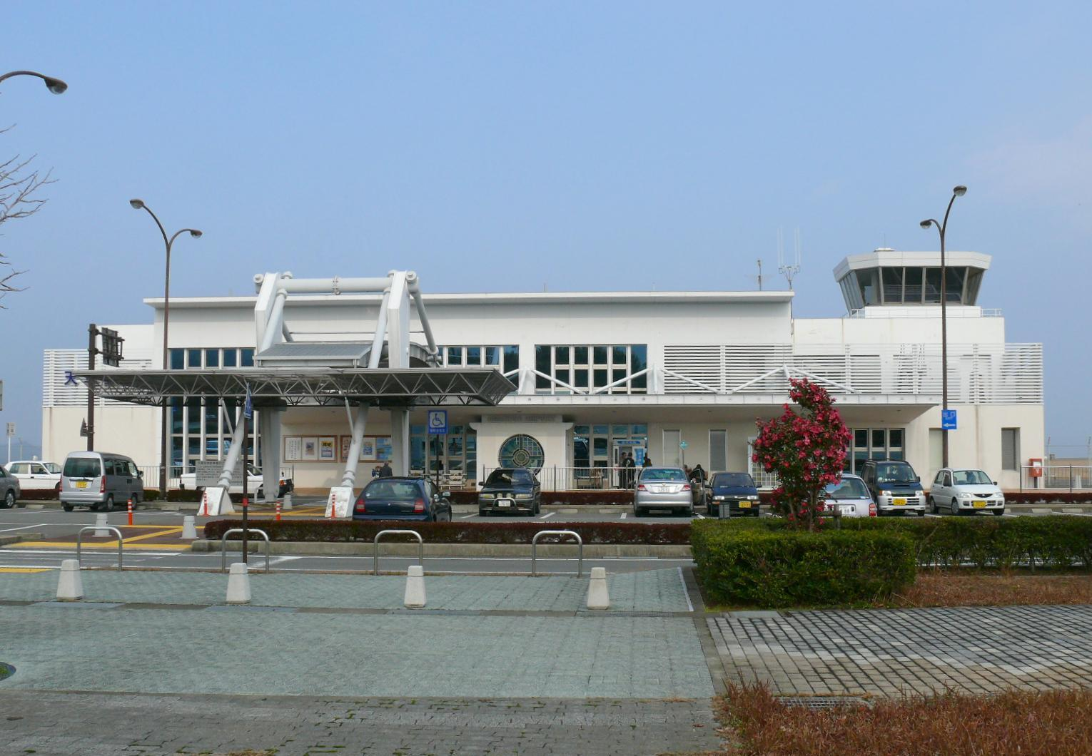 Amakusa airport terminal building (Japan,Kumamoto,Amakusa-City). See also 天草飛行場 for more information(written in Japanese). 天草空港のターミナルビル。 駅の所在地は熊本県天草市五和町。 天草空港前の、広場より撮影。